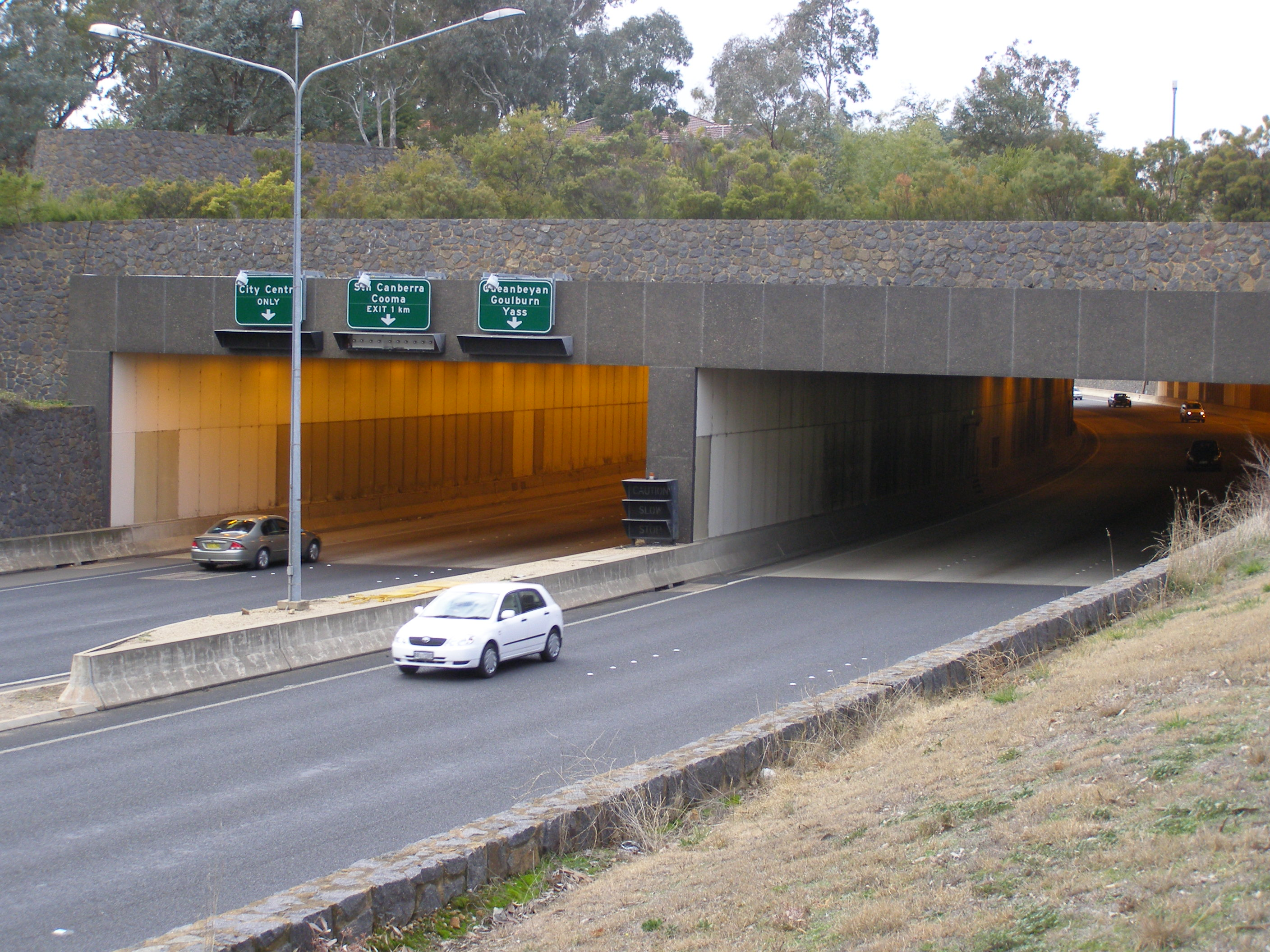 Parkes Way Tunnel. Road signs read "City Centre, Only", "S.. Canberra, Cooma, Exit 1 km", "Queanbeyan, Goulburn, Yass". Taken by User:Ben McCarthy on 3/7/06.